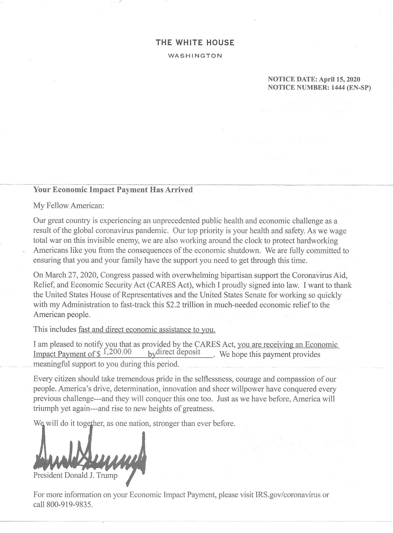 Your Economic Impact Payment Has Arrived letter from President Donald Trump